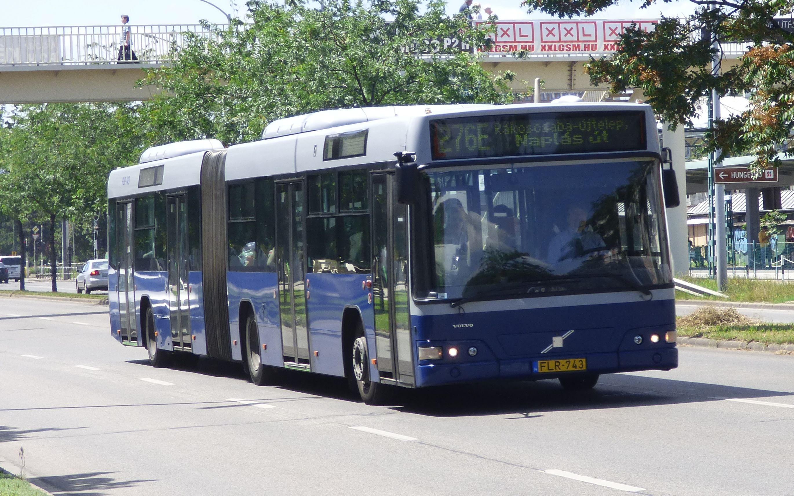 Volvo 7700A bus, Budapest, bus line 276E (reg. FLR-743)